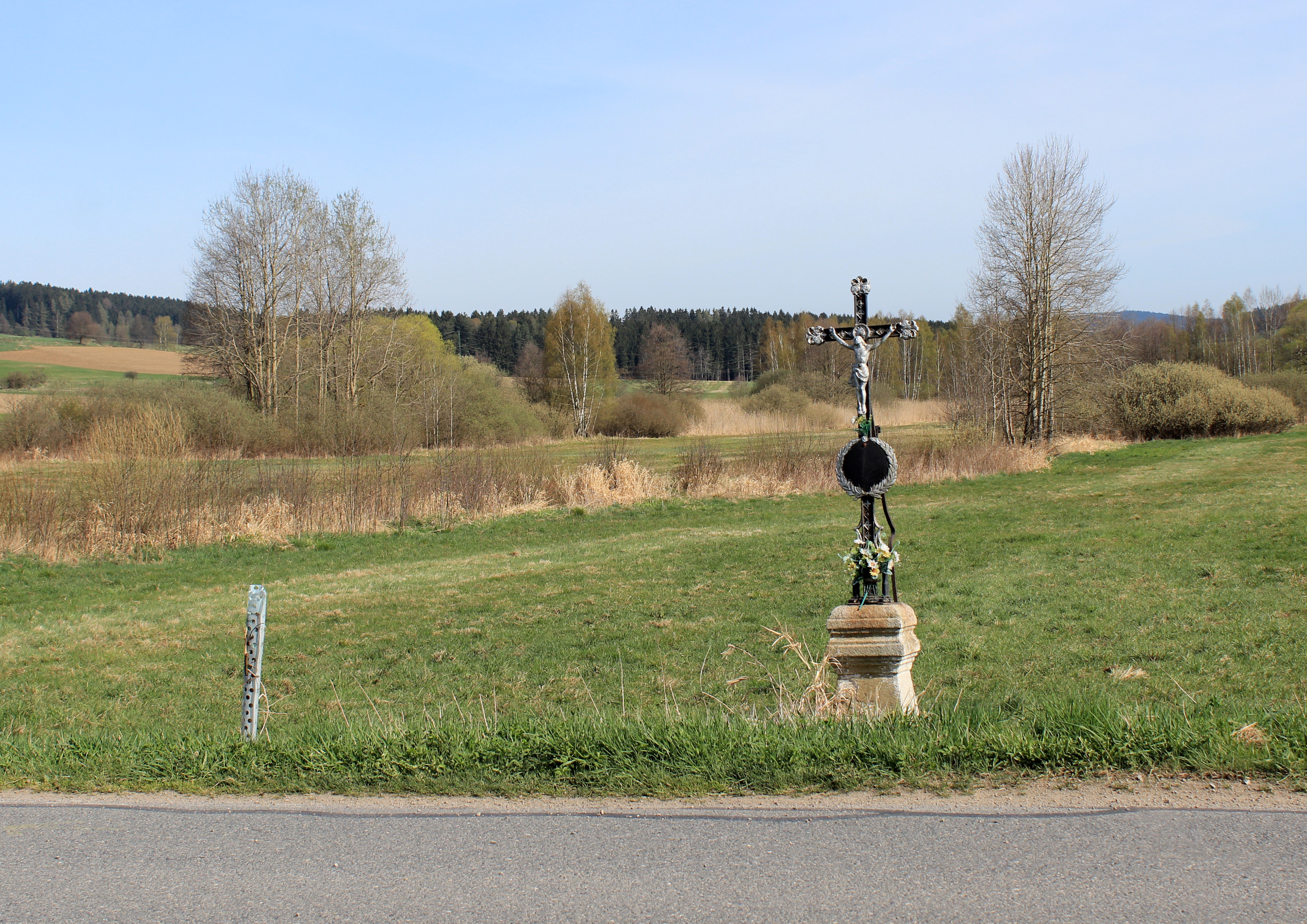 Wayside cross in Petrkov, part of Zachotín, Czech Republic.